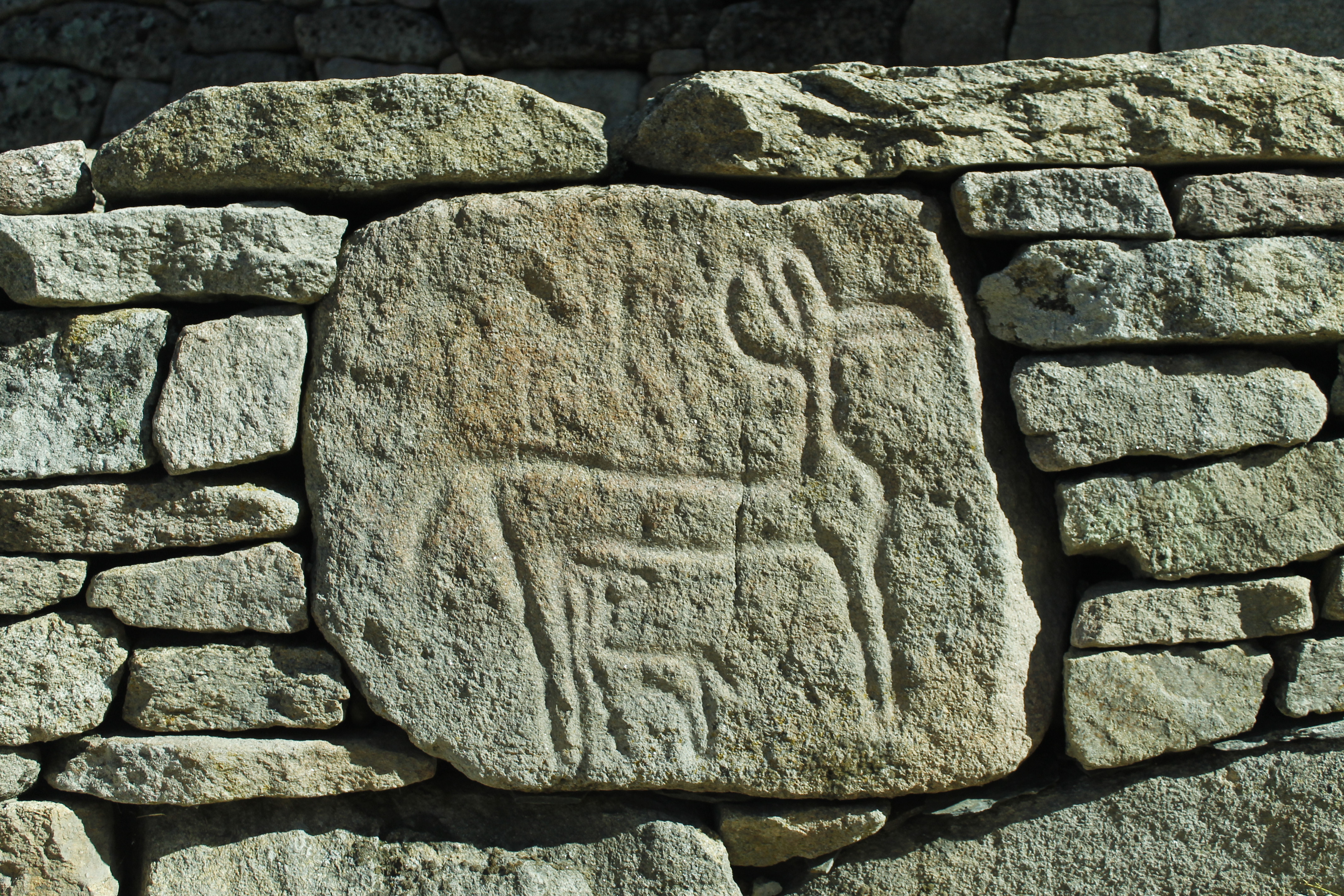 Cierva amamantando a cervatillo.